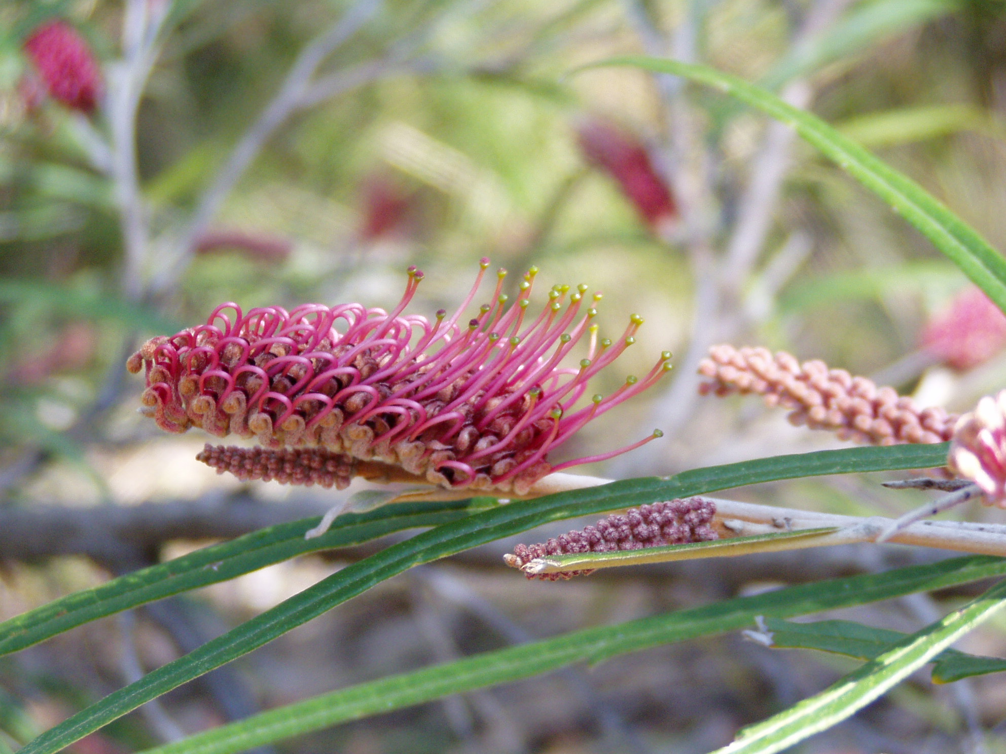 Description: Grevillea aspleniifolia - Flowers Location: Australian National Botanic Gardens, Canberra, Australian Capital Territory, Australia Date: 2005-09-21 Source: picture taken by Danielle Langlois Licence: Released under GFDL and Creative Commons licenses by the photographer